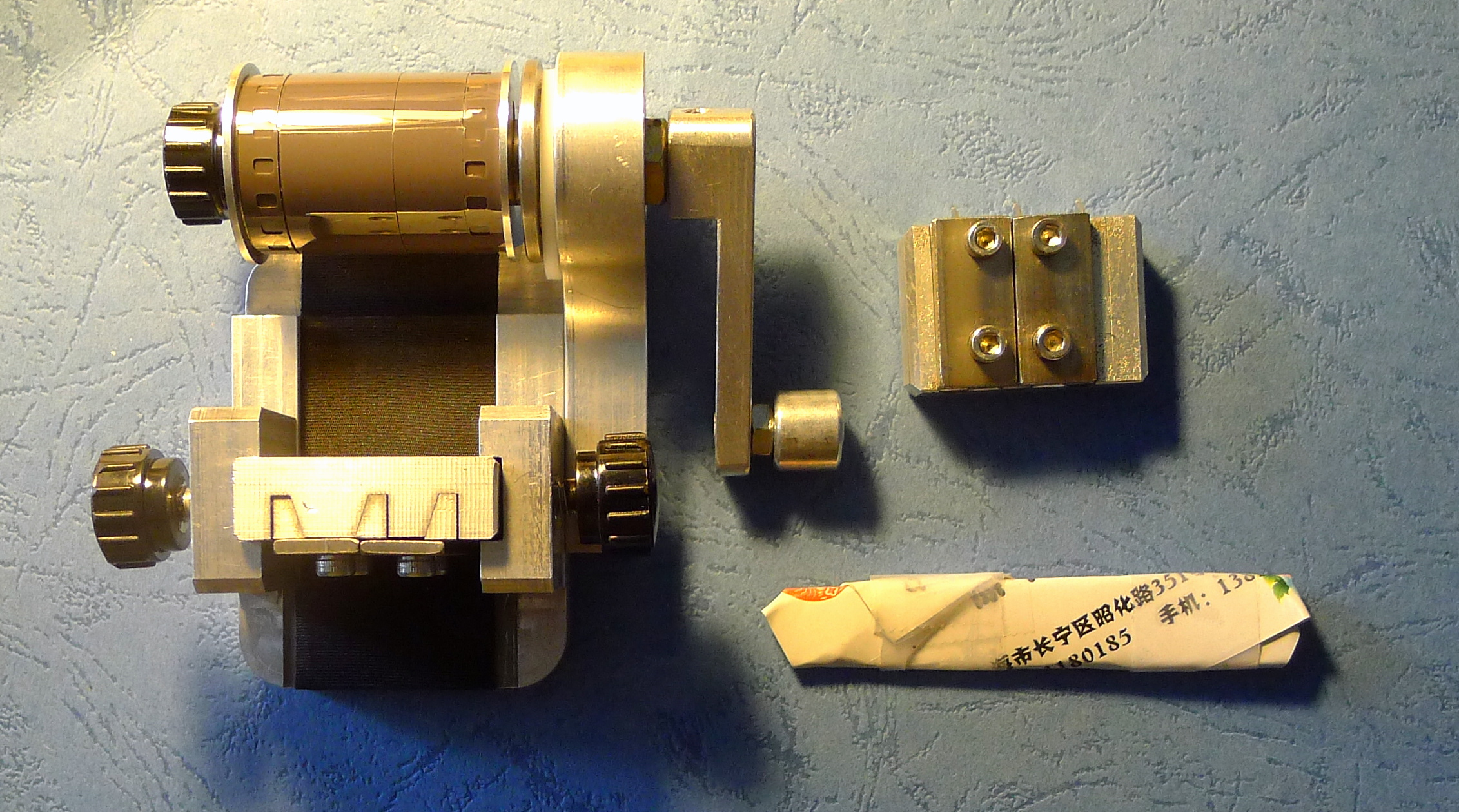 Knife block film slitter with interchangeable knife sets and blades